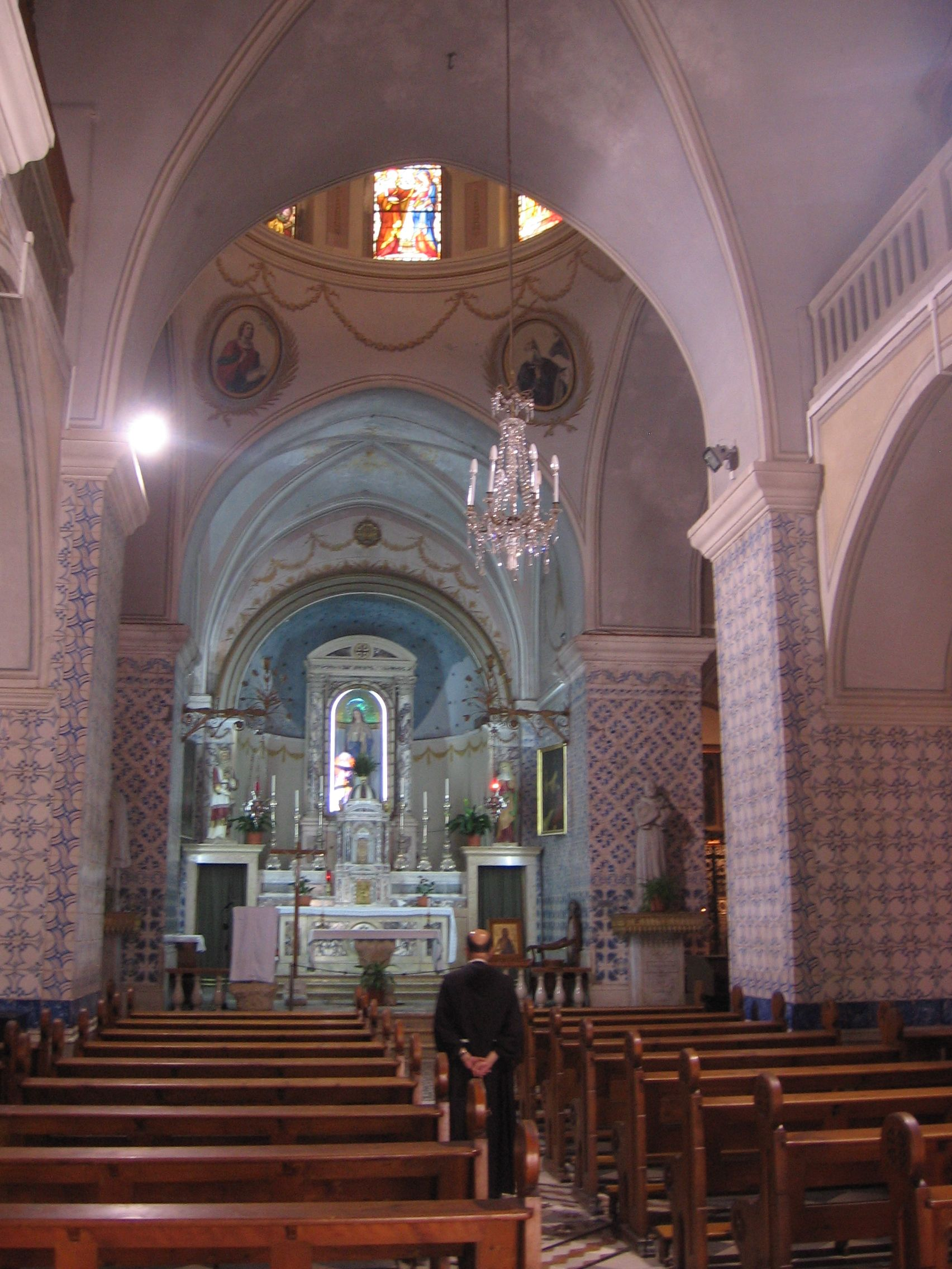 St. John the Baptist church in Ein Kerem, main hall.